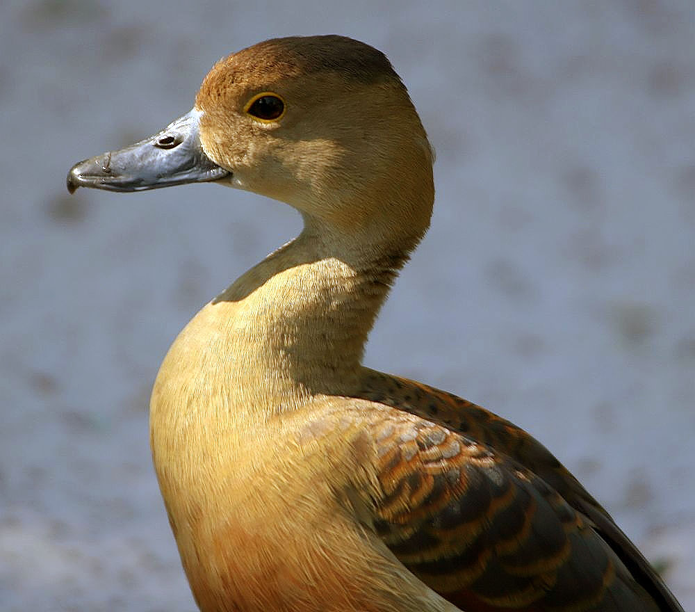 Location taken: Miami MetroZoo, Miami, FL USA. Names: Dendrocygna javanica (Horsfield, 1821), Anatra fischiatrice indiana, Anatra fischiatrice minore indiana, Ànec arbori menut, Belibis kecil, Belibis Kembang, Belibis Polos, bengáli fütyülőlúd, Cheezhkai Siragi, Dendrocigna indiana, Dendrocigna minore, Dendrocygna javanica, Dendrocygne de Java, Dendrocygne de l'Inde, Dendrocygne indien, Dendrocygne siffleur, drzewica indyjska, Hindistan fitçalan ördəyi, Husicka malá, Indian Tree Duck, Indian Tree-Duck, Indian Whistling Duck, Indian Whistling-Duck, Indien-Pfeifgans, Indienpfeifgans, Indische fluiteend, Intianviheltäjäsorsa, Itik Belibis, Java boomeend, Java Islıkçı Ördeği, Jávai fütyülőlúd, Javan tree, Javan Tree-Duck, Javan Whistling Duck, Javan Whistling-Duck, Javapfeifgans, Le nâu, Lesser Tree Duck, Lesser Tree-Duck, Lesser Treeduck, Lesser Whistling Duck, Lesser Whistling Teal, Lesser Whistling-Duck, Lille Træand, mali žvižgač, Marreca de Java, Mliwis, Orientalisk visseland, Orientvisseland, Pato silbador de la India, Roðablístra, Ryukyu-gamo, ryuukyuugamo, Småplystreand, Stromárka hvízda